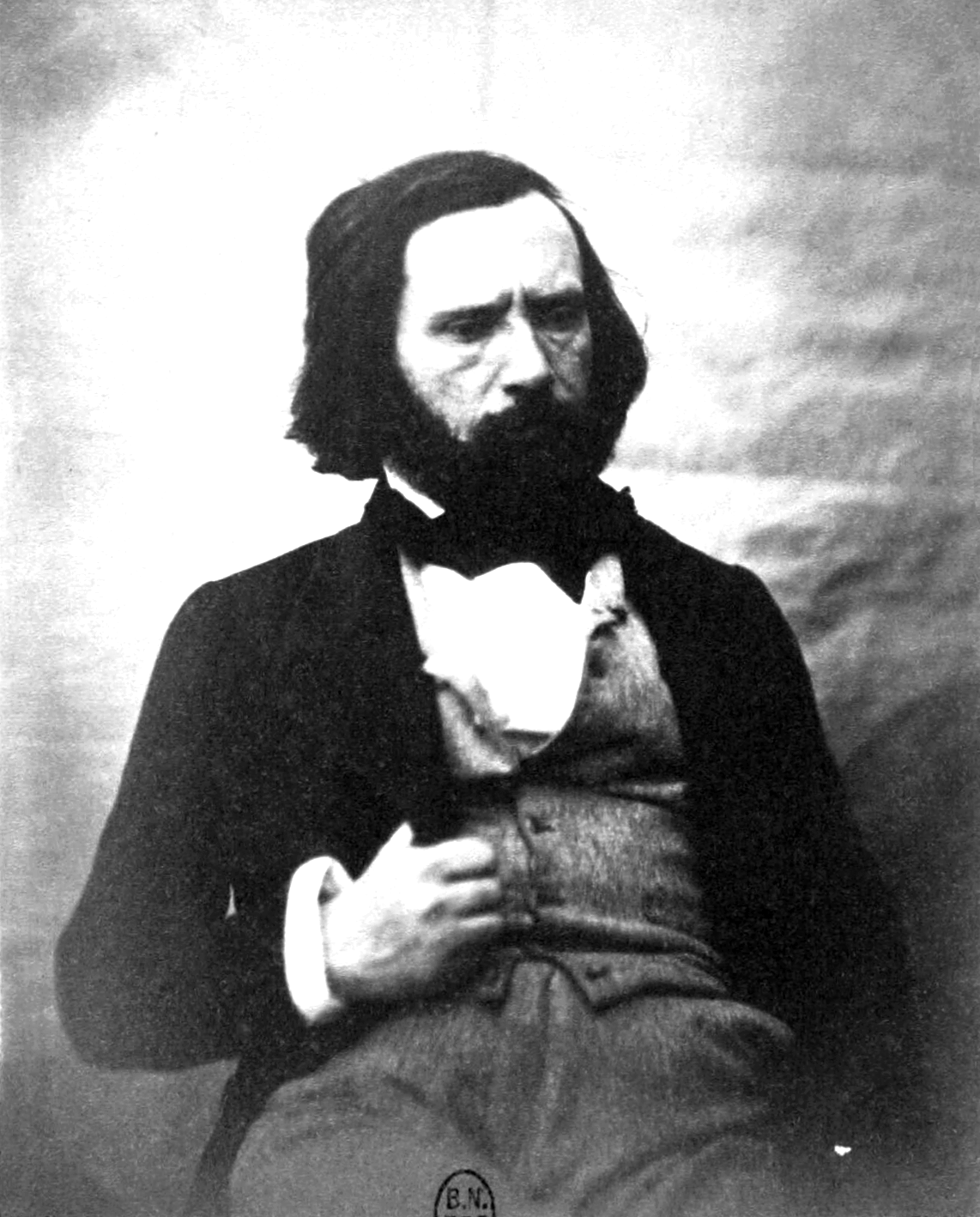 Joseph-Charles Ribeyrolles (1812–1860), French Republican journalist and writer